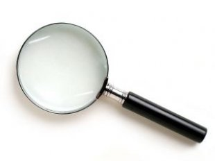 from everystockphoto dot com via stock exchange license...okay for this use.